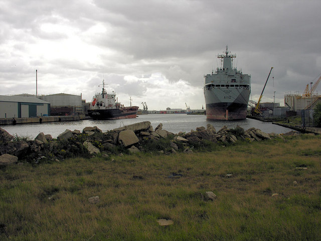 West Float from the west end